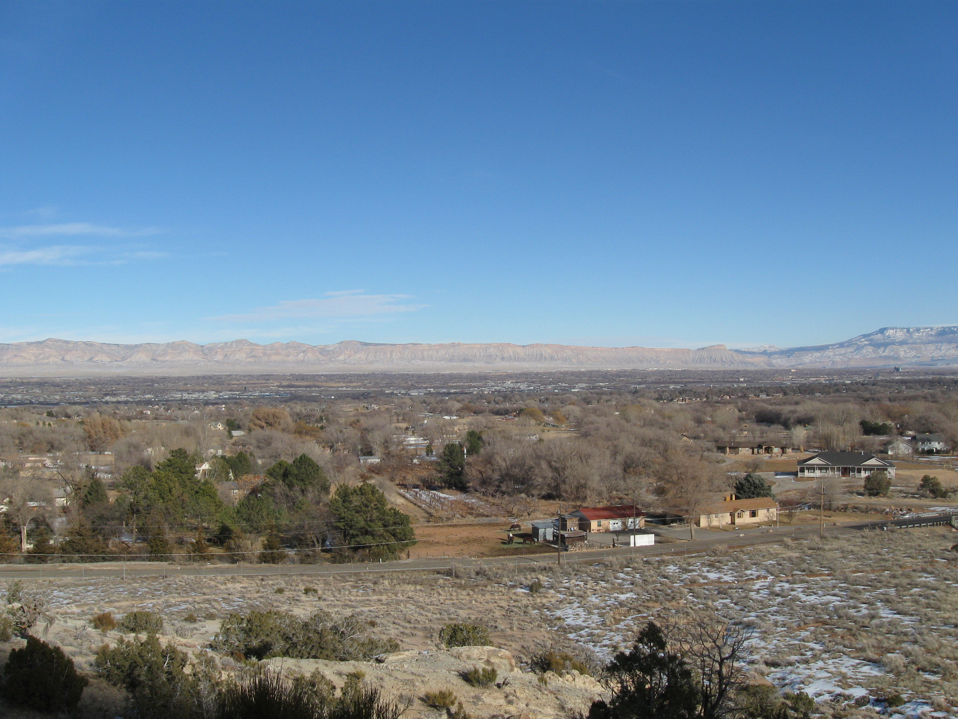 Grand Junction looking north, during winter January 2011